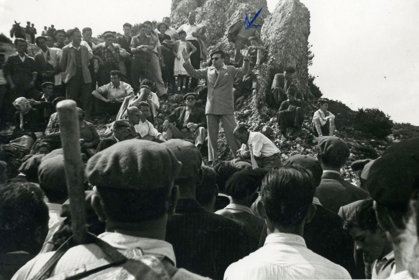 May 1954, the summit of Montejurra, Navarre. José Ángel Zubiaur Alegre delivering an address to the crowd. Photo from JAZA, the private archive of José Ángel Zubiaur Alegre